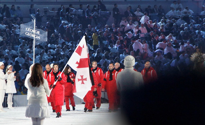 In perhaps the most emotional moment of the Opening Ceremony of the 2010 Winter Olympics, the crowd rises to give the Georgian athletes, led by Alpine skier Iason Abramashvili, a standing ovation following the tragic death of 21-year-old luge athlete Nodar Kumaritashvili earlier in the day. The Georgian flag is decorated with a black ribbon.